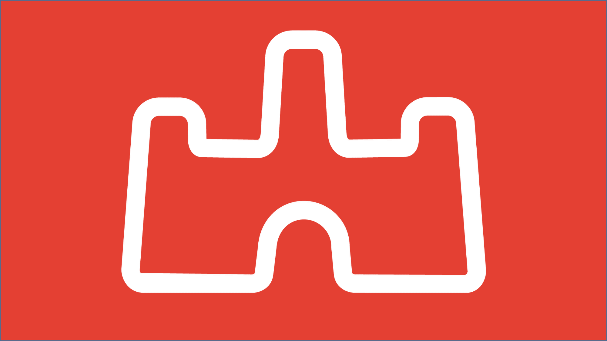 Logo of Italian furniture firm Anonima Castelli, Bologna